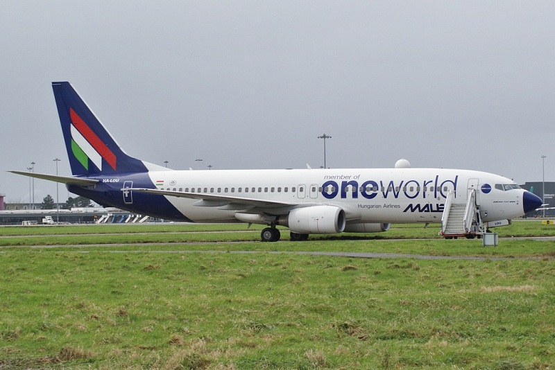 Boeing B737 HA-LOU, Oneworld livery